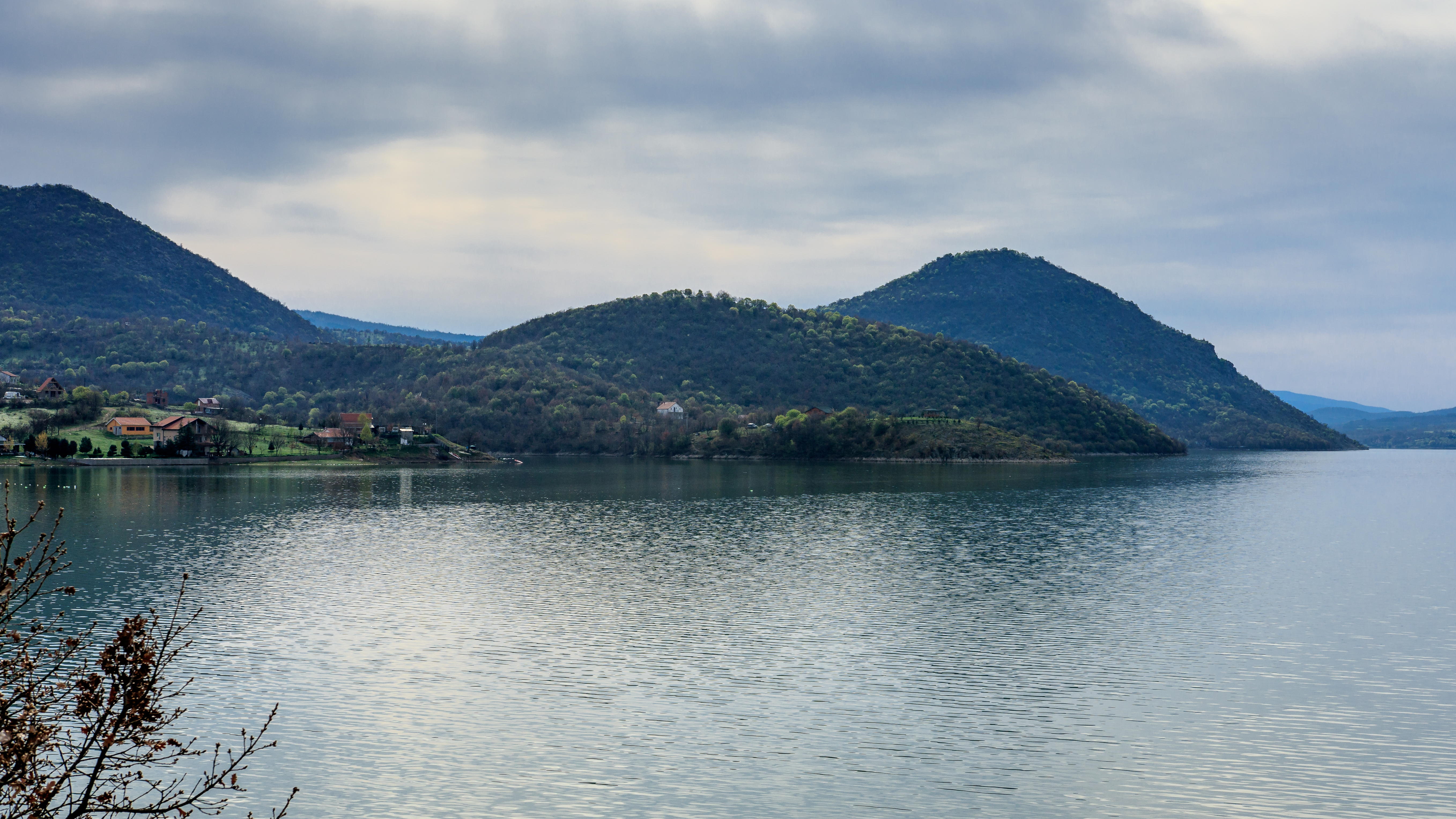 View of the Mantovo Lake